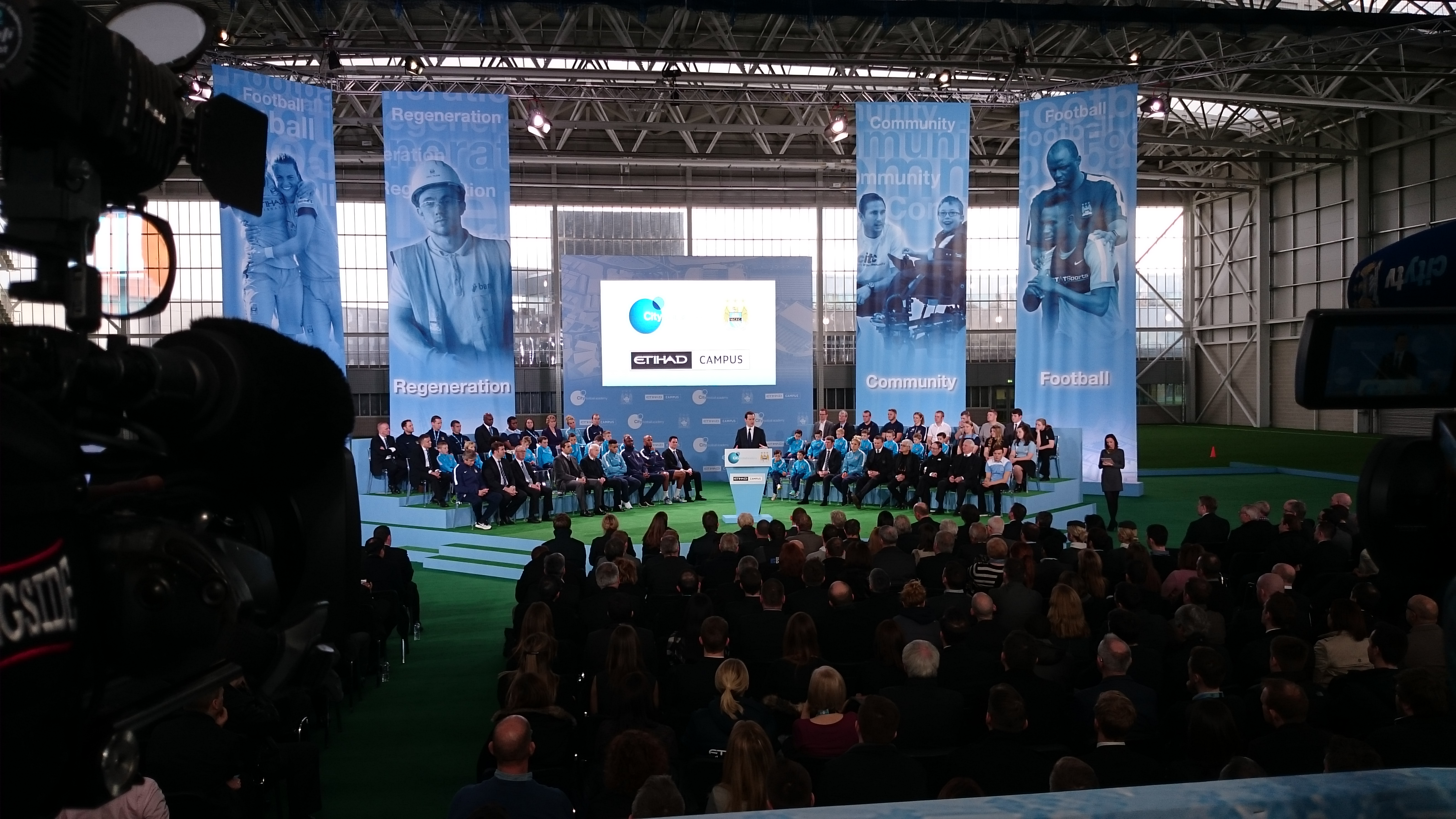 George Osbourne speaks at the opening of the Etihad Campus. Picture taken from the media platform.